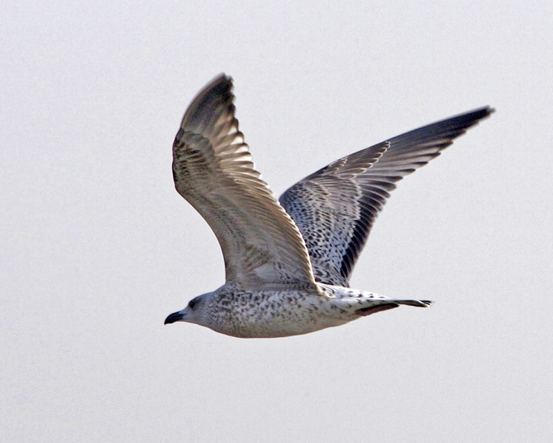 First-summer Larus vegae (Vega Gull), Beidaihe, China